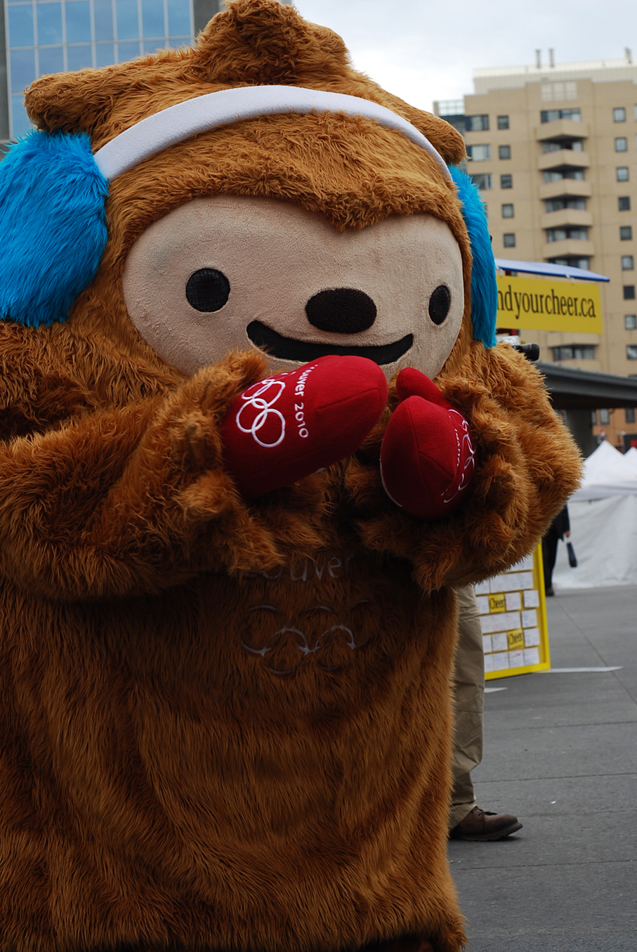 Winter Olympic 2010 mascot Quatchi.